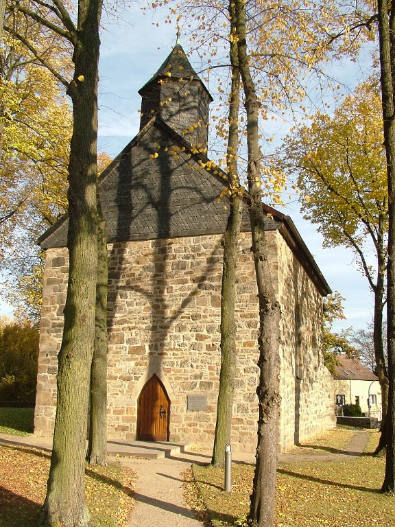 The chapel of St. Margareth, built 1348, is the oldest preserved building in Dortmund-Barop, Germany